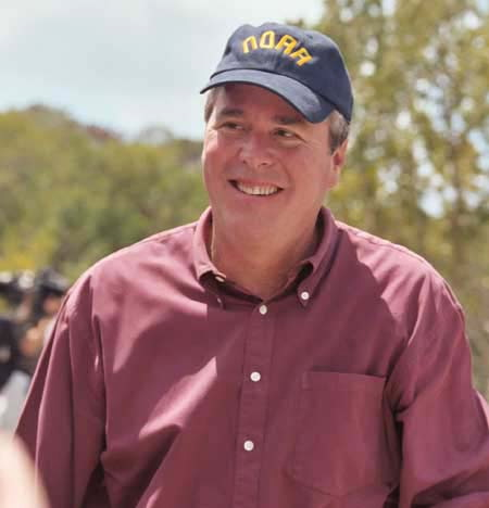 Former Florida governor Jeb Bush participates in Earth Day activities at Rookery Bay, Naples, Florida in 2004.